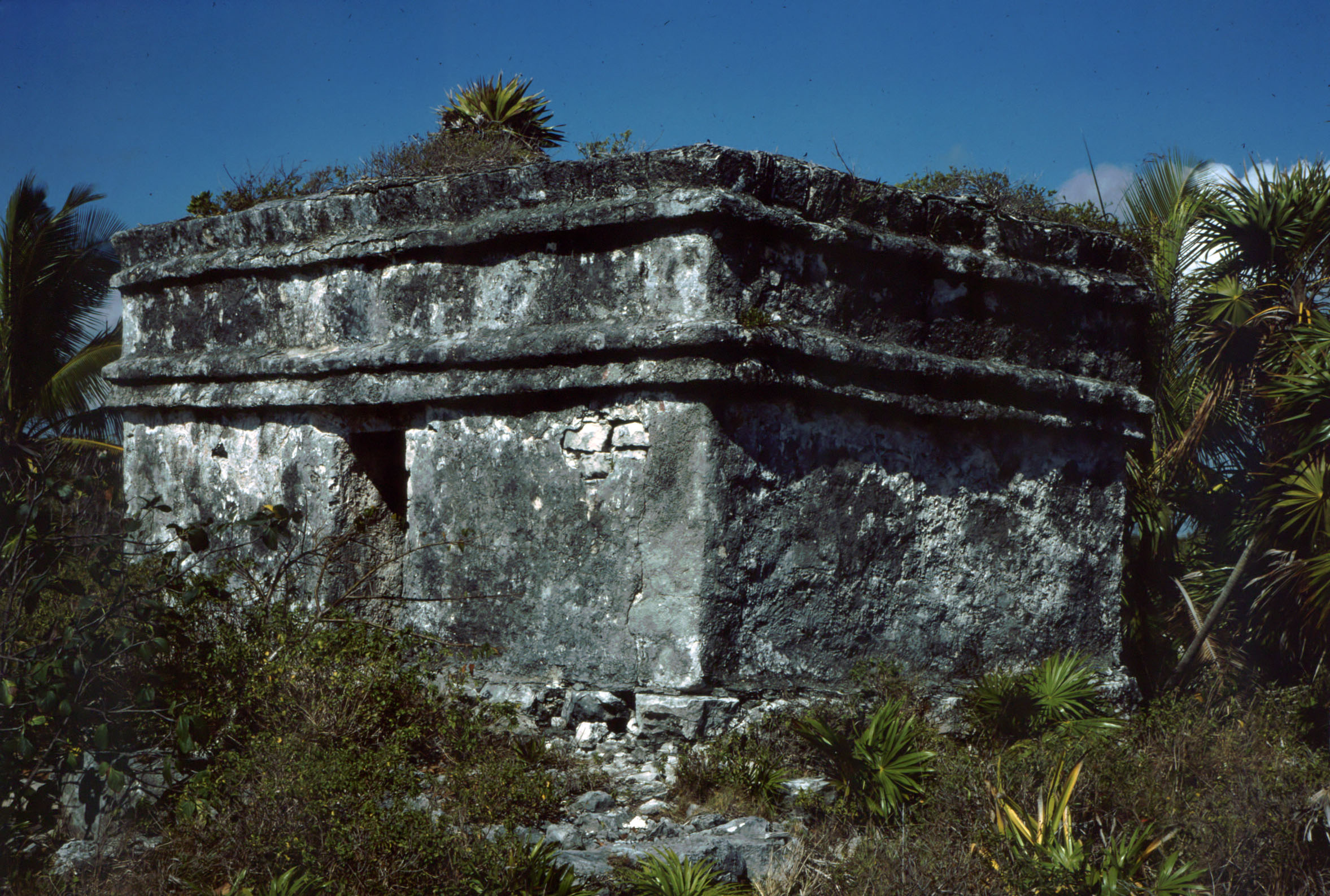 Chakalal, archaeological site in Quintana Roo, Mexico.